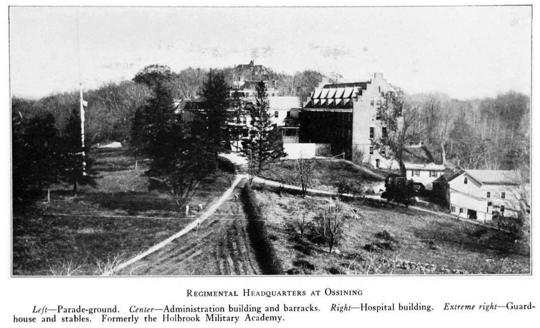 Photograph of Dr. Holbrook's Military School.